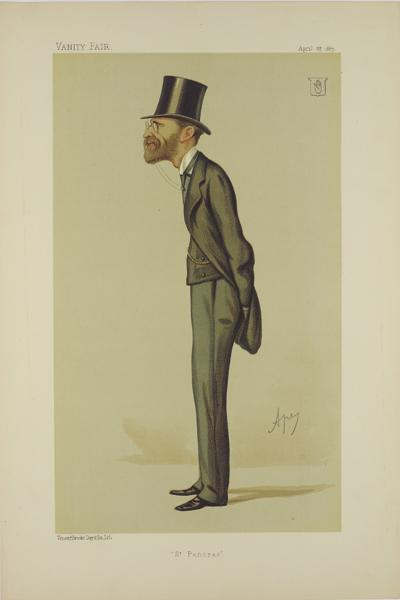 Statesmen No.519: Caricature of Sir Julian Goldsmid Bt MP. Caption reads: "St Pancras"